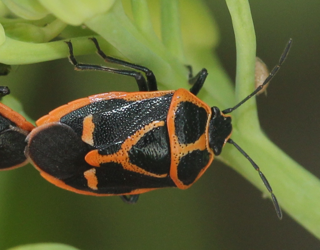 Eurydema rugosa on Raphanus sativus var. longipinnatus in Kasugai, Aichi prefecture, Japan.